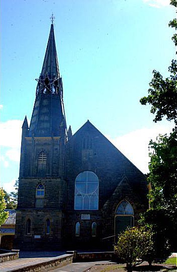 ST. PAUL’S LUTHERAN CHURCH in Hahndorf, South Australia CONSTRUCTED AT THE END OF THE 1880’S. TWO CHURCHES WERE NEEDED AS THERE WERE DOCTRINAL DIFFERENCE BETWEEN THE TWO CONGREGATIONS